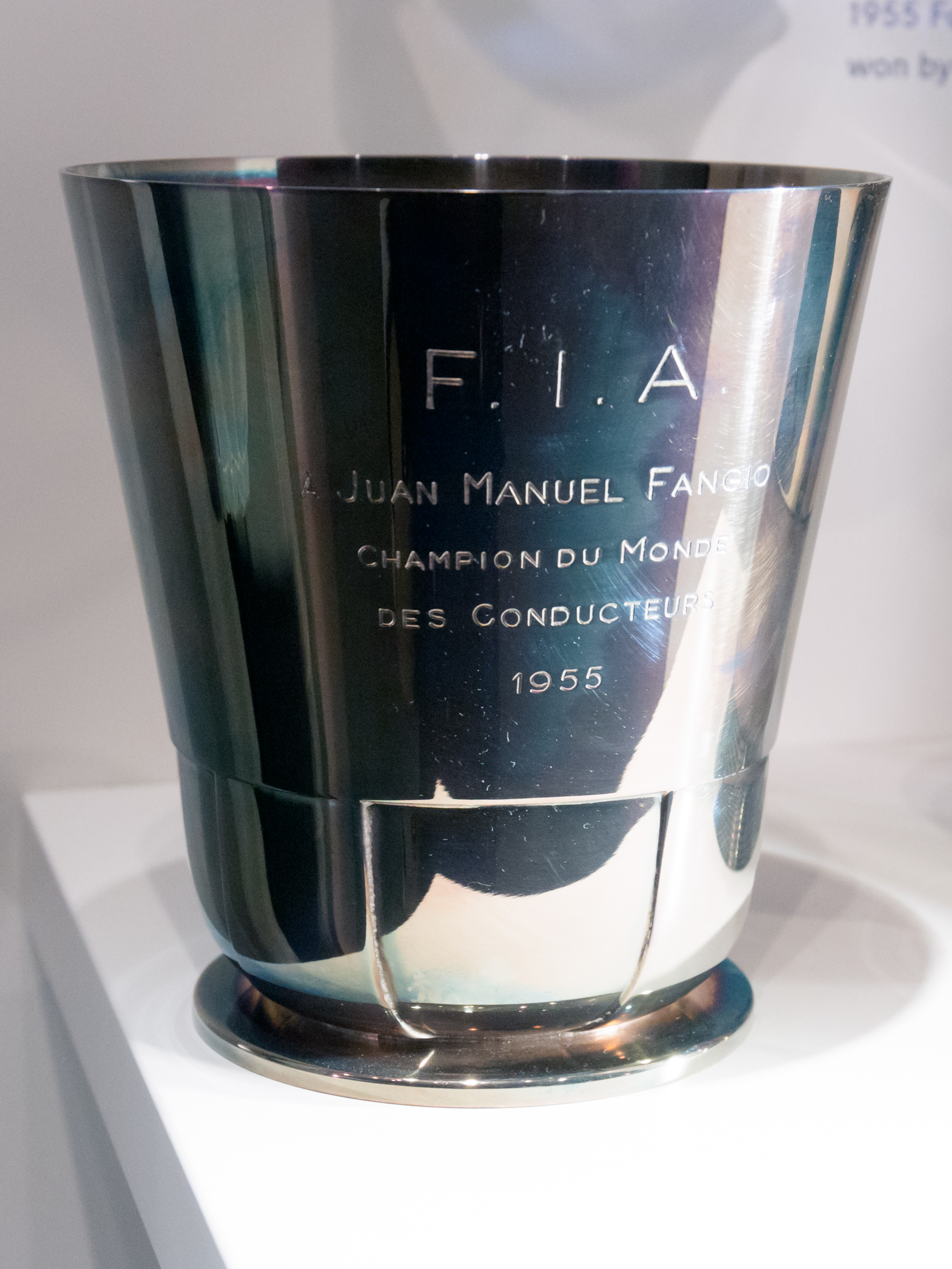 1955 Formula One Drivers' World Championship cup, won by Juan Manuel Fangio.